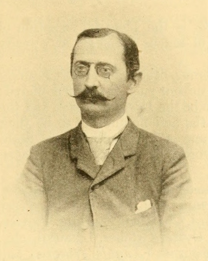 Portrait of Heinrich Simroth (1851-1917).